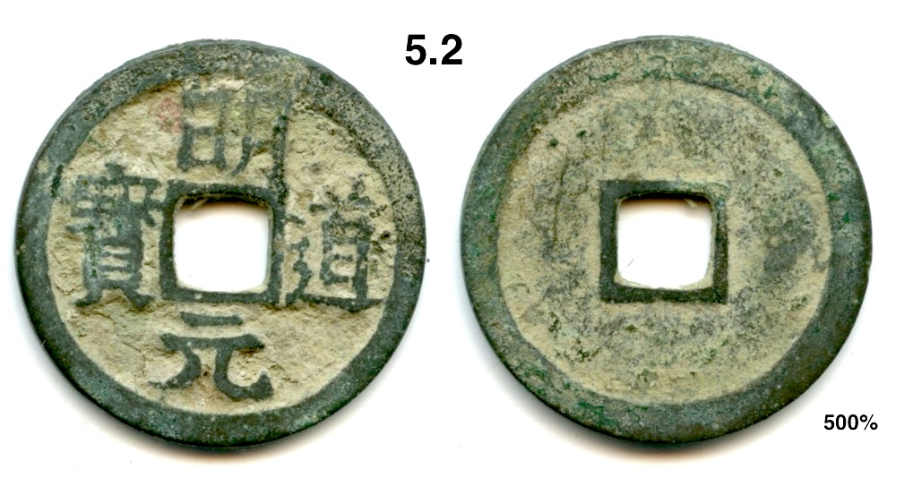 An ancient Vietnamese cash coin cast under the reign of the Lý Dynasty.